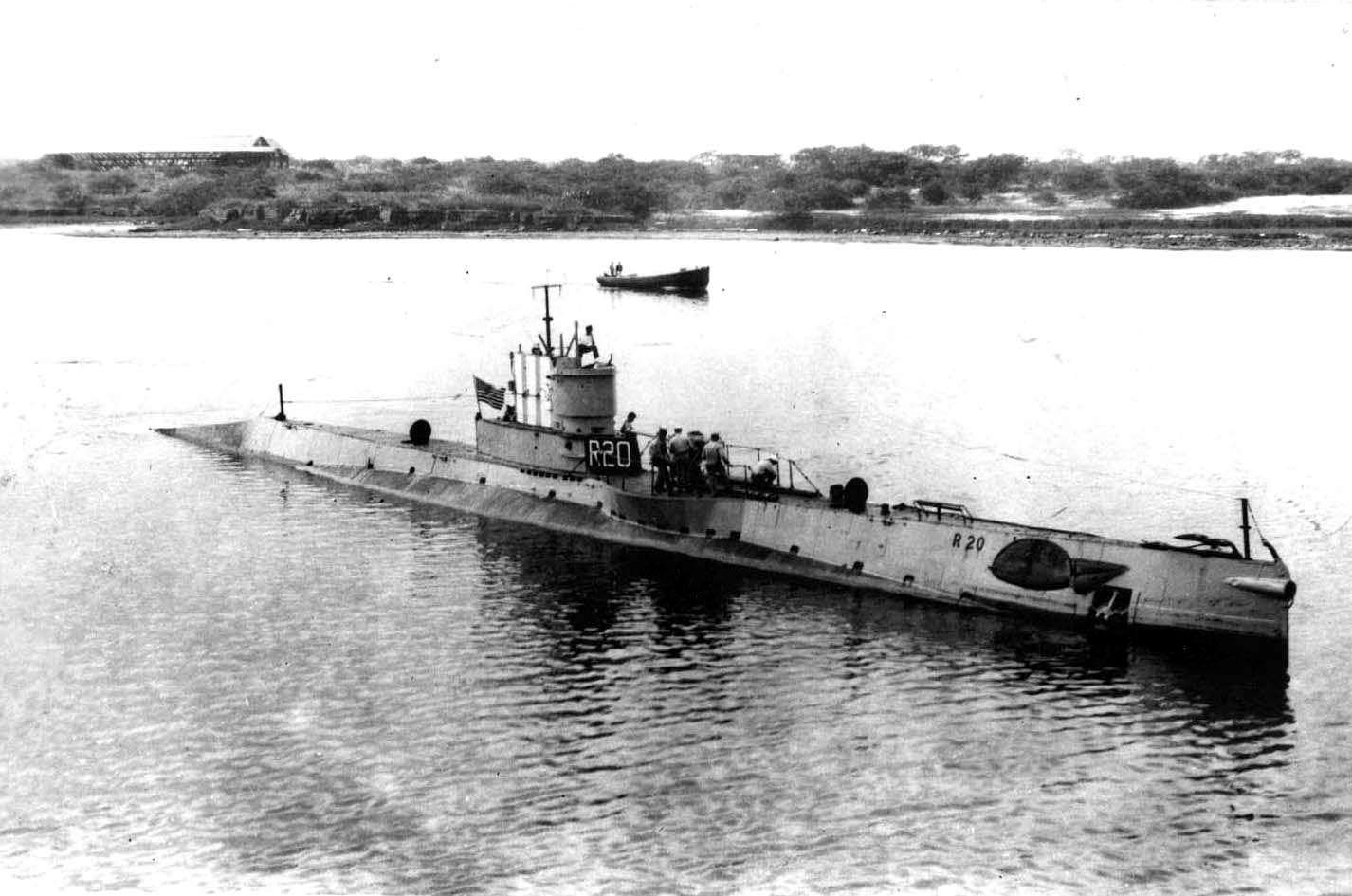 United States Navy submarine , possibly in the Thames River near New London